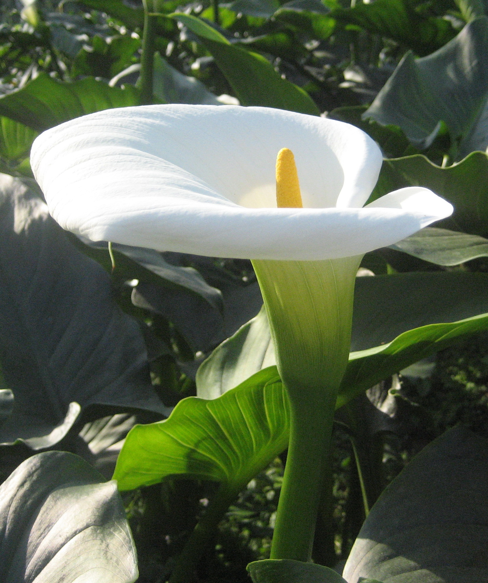 possibly a Category:Araceae?